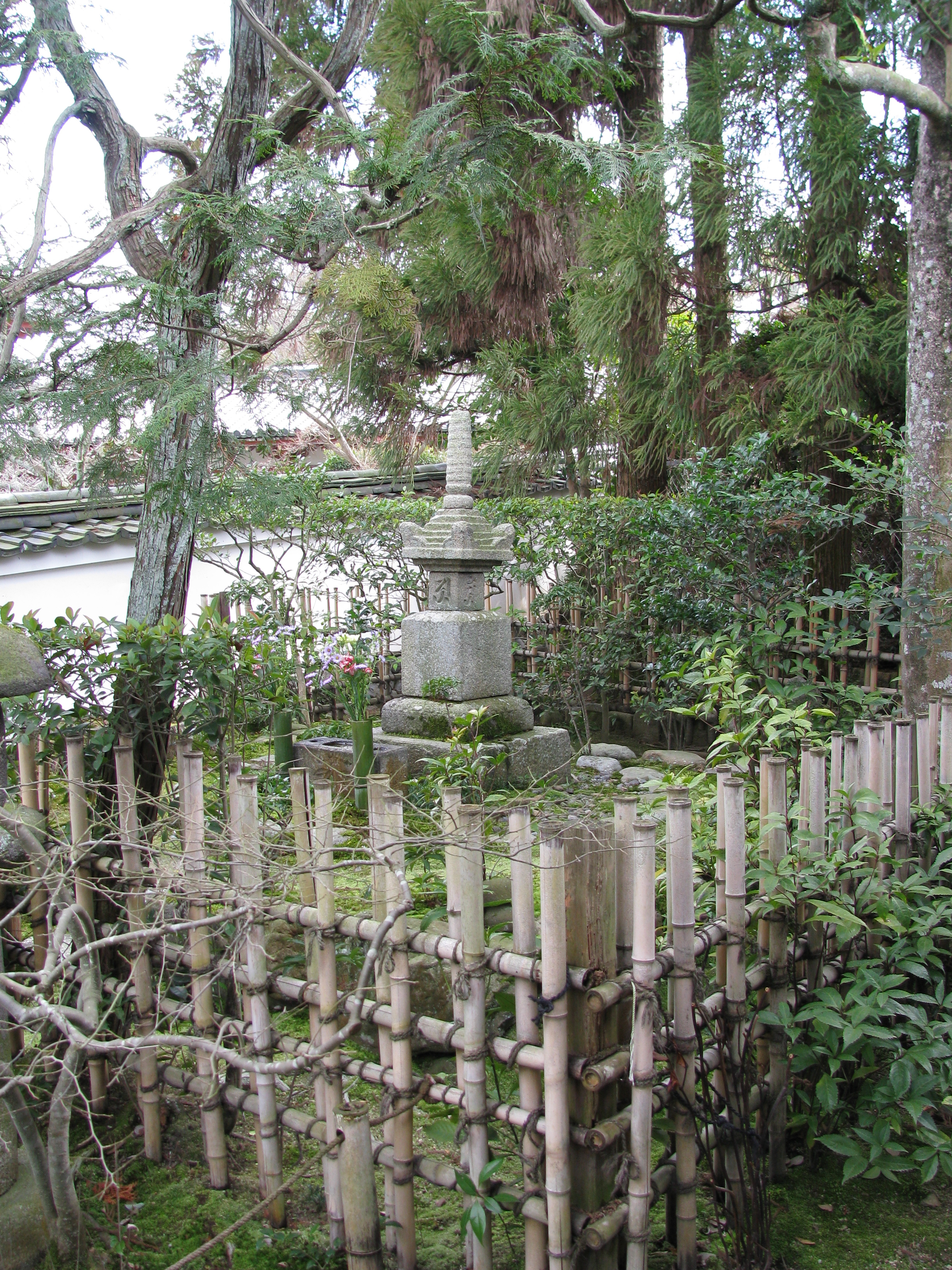 The grave of Minamoto no Yorimasa in the Byodo-In temple in Uji, Japan